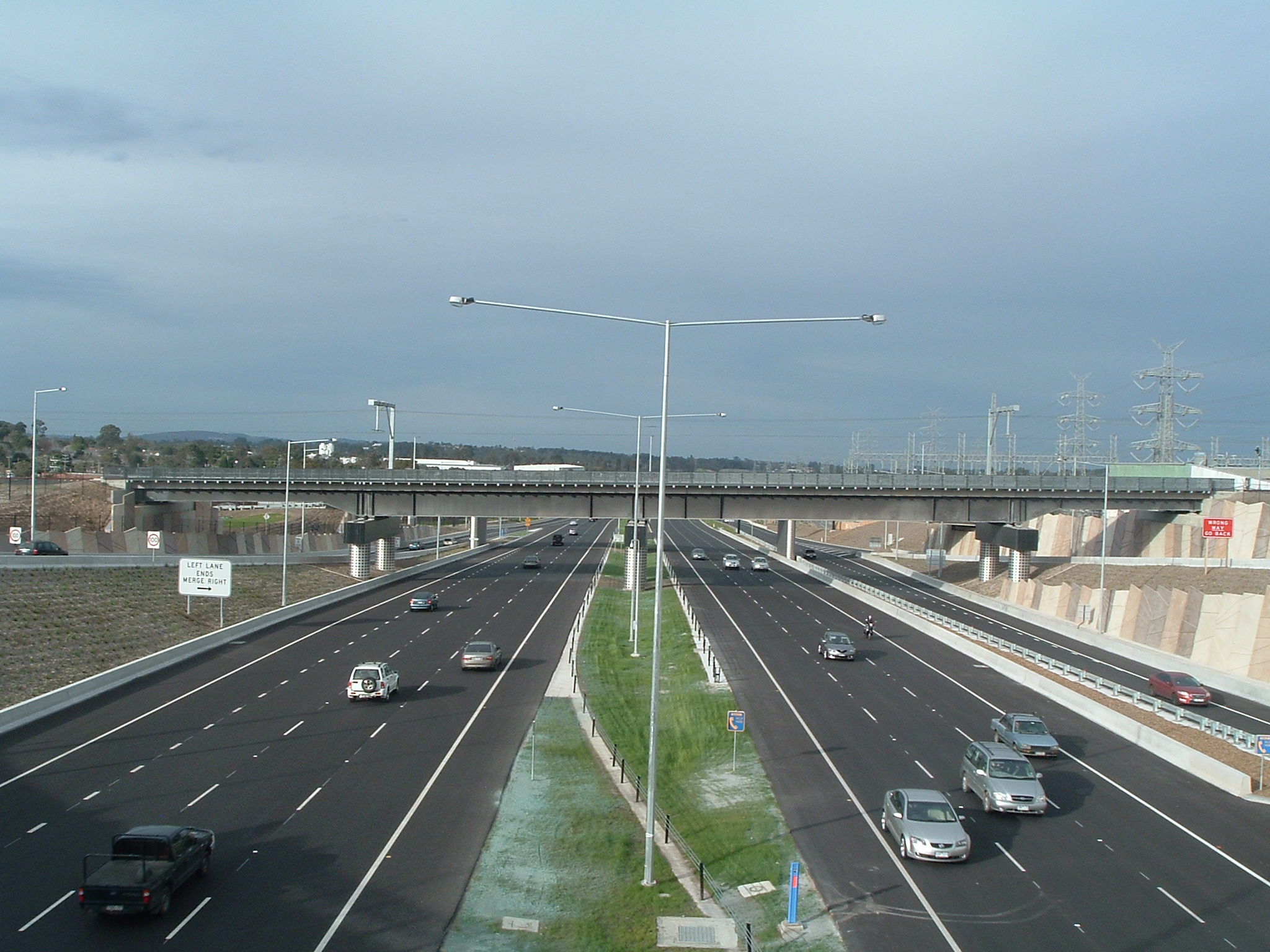 Taken from Maroondah highway bridge, looking towards the railway bridge, Ringwood.